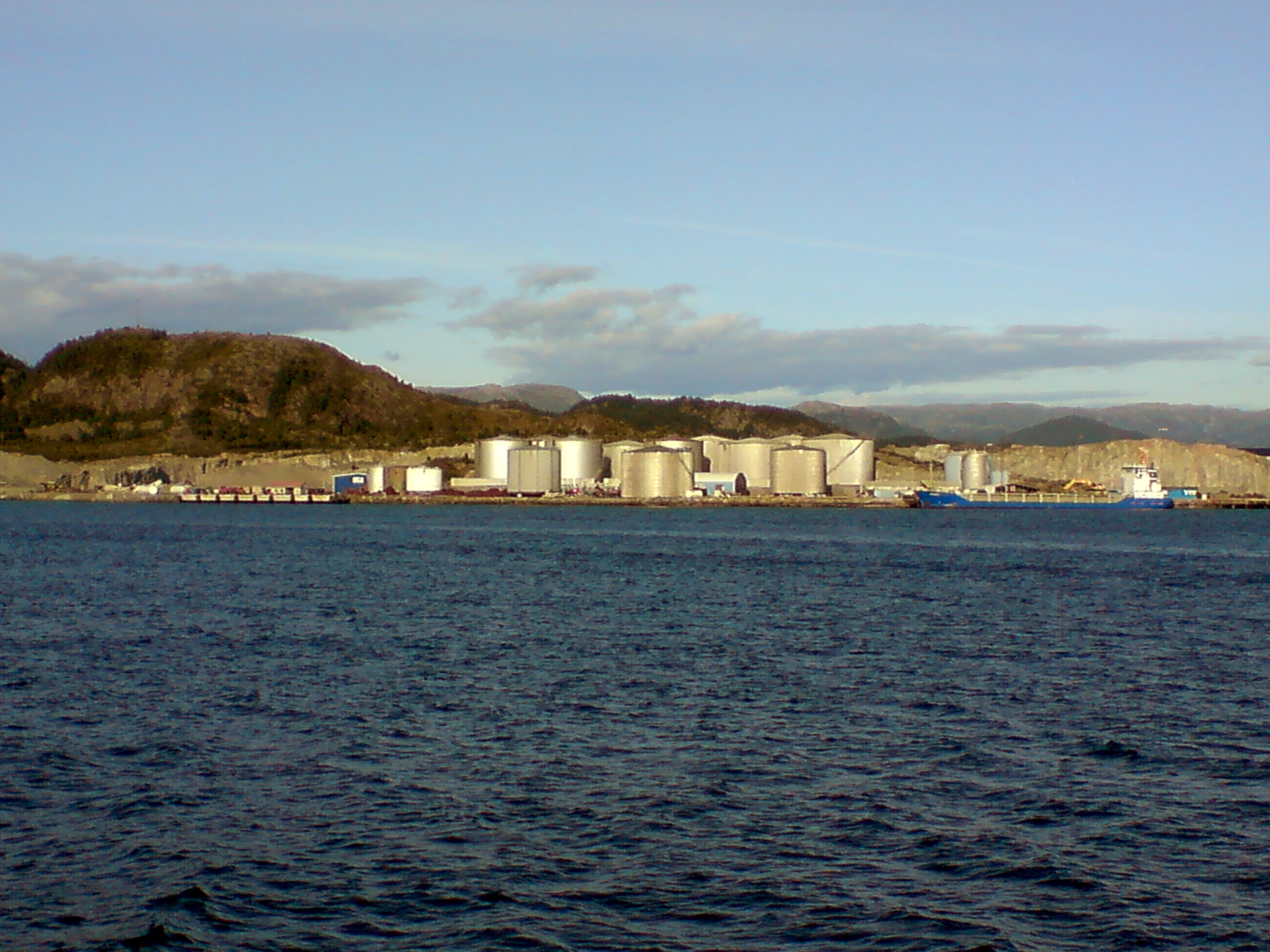 Vest Tank plant (now Alexela) in Sløvåg, Gulen, Norway. Site of explosion may 2007 when waste from washing of coker gasoline caught fire. Involved companies were Vest Tank, Alexela, Trafigura.